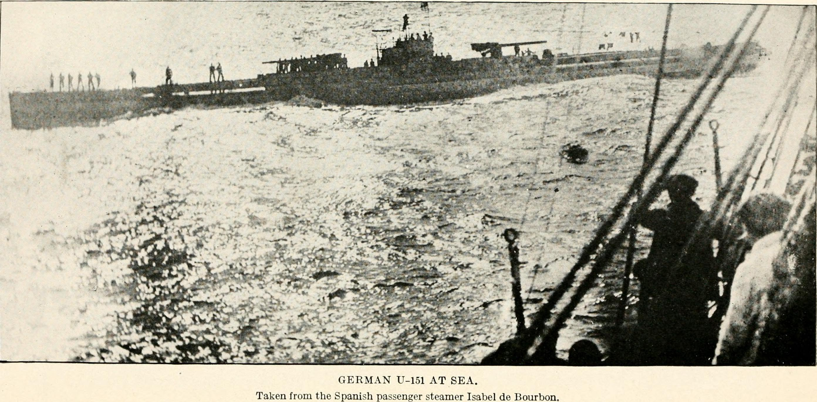 Title: German submarine activities on the Atlantic coast of the United States and Canada Year: 1920 (1920s) Authors: United States. Office of Naval Records and Library Subjects: World War, 1914-1918 -- Naval operations Submarine World War, 1914-1918 -- Germany Publisher: Washington : Govt. Print. Off. Text Appearing Before Image: 16-7 Text Appearing After Image: 16-8 THE DEUTSCHLAND. 17 The DeutscMand made a safe passage through the North Sea,avoiding the British patrols. The rest of the trip was made prin-cipally on the surface. The weather was fine throughout. When offthe Virginia Capes she submerged for a couple of hours because oftwo ships sighted of doubtful appearance. She passed through theCapes on July 9, 1916, at 1 oclock a. m., and as she left Helgoland onJune 23, the time of her trip was 16 days. The DeutscMand arrivedat Baltimore, Md., on Sunday, July 9, 1916. The total distance fromBremen to Baltimore by the course sailed was about 3,800 miles.Her cargo consisted of 750 tons of dyestuffs and chemicals, valuedat about $1,000,000, and which was discharged at Baltimore. The DeutscMand remained at Baltimore 23 days and took on cargofor her return trip—a lot of crude rubber in bulk, 802,037 pounds,value $568,854.84; nickel, 6,739 bags, 3 half bags, weight 752,674pounds, value $376,337; tin in pig, 1,785 pigs, weight 181,049 pounds,v